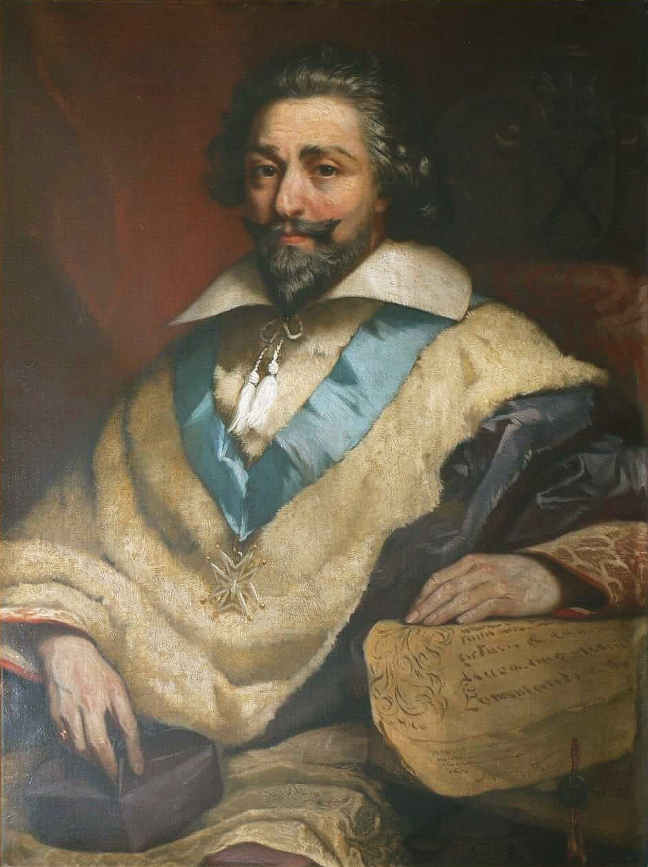 Portrait of Jean-François de Gondi (1594-1654), first archbishop of Paris